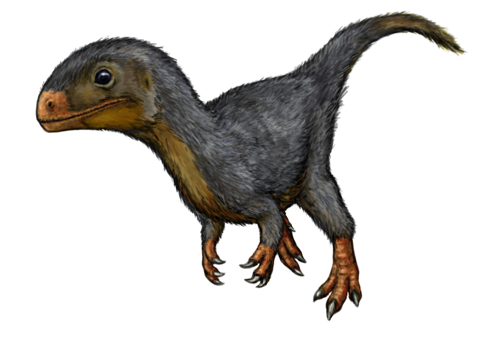 Restoration of Daemonosaurus chauliodus, based on Jaime Headden's interpretation of tooth placement.[1]